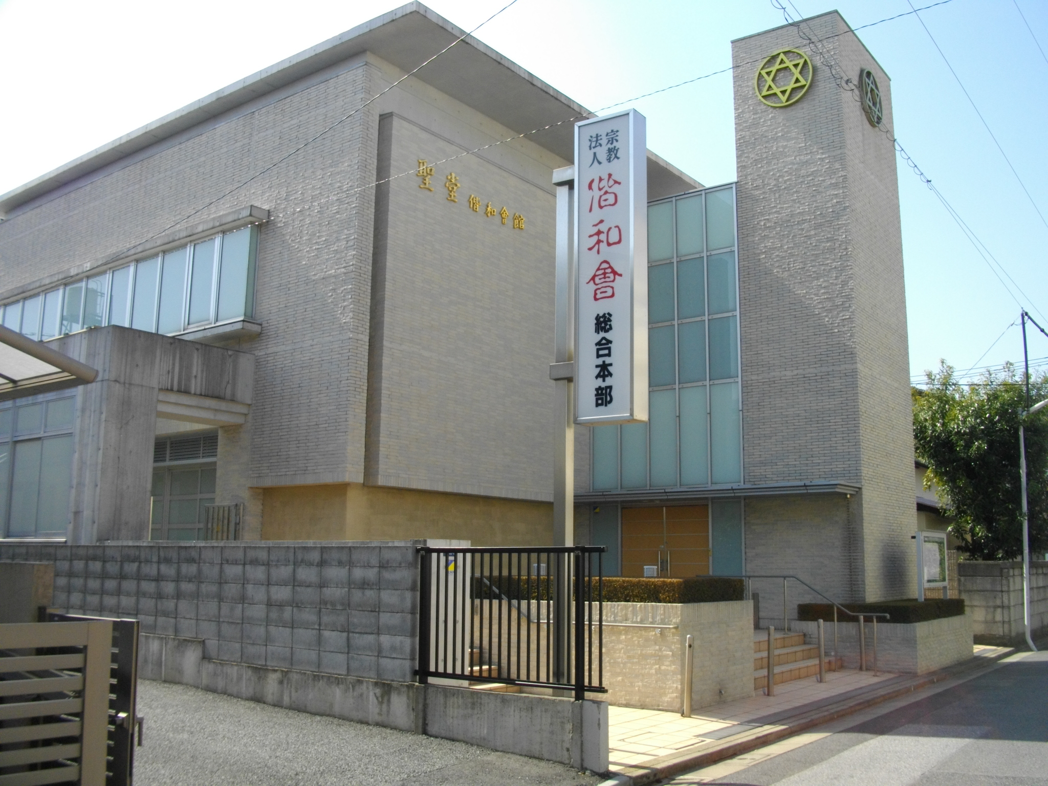 Kaiwakai Headquarters